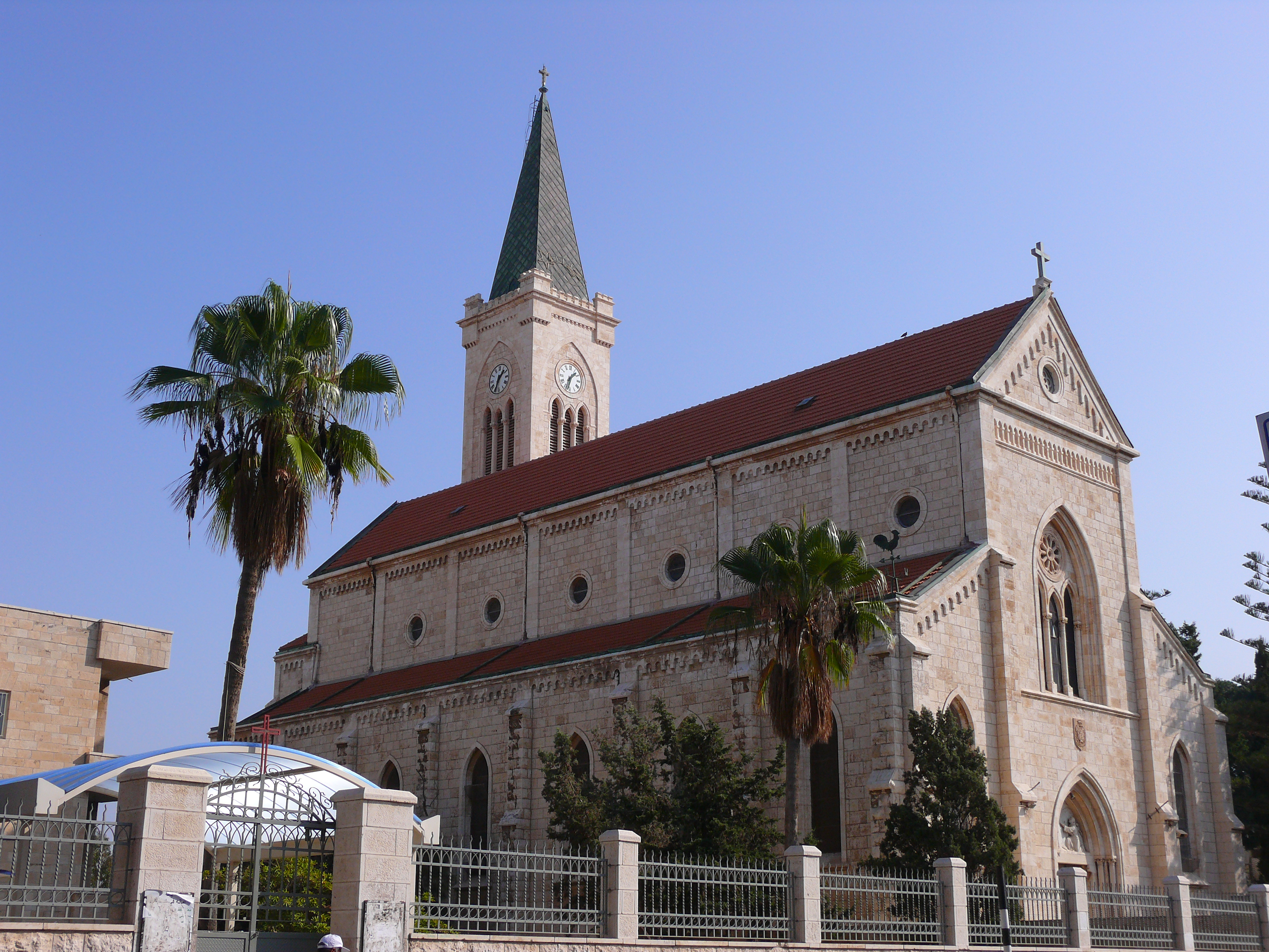 Chiesa di S. Antonio in Giaffa (Cat.), Neo-Gothic Church in Yefet Street in Yaffo, Israel